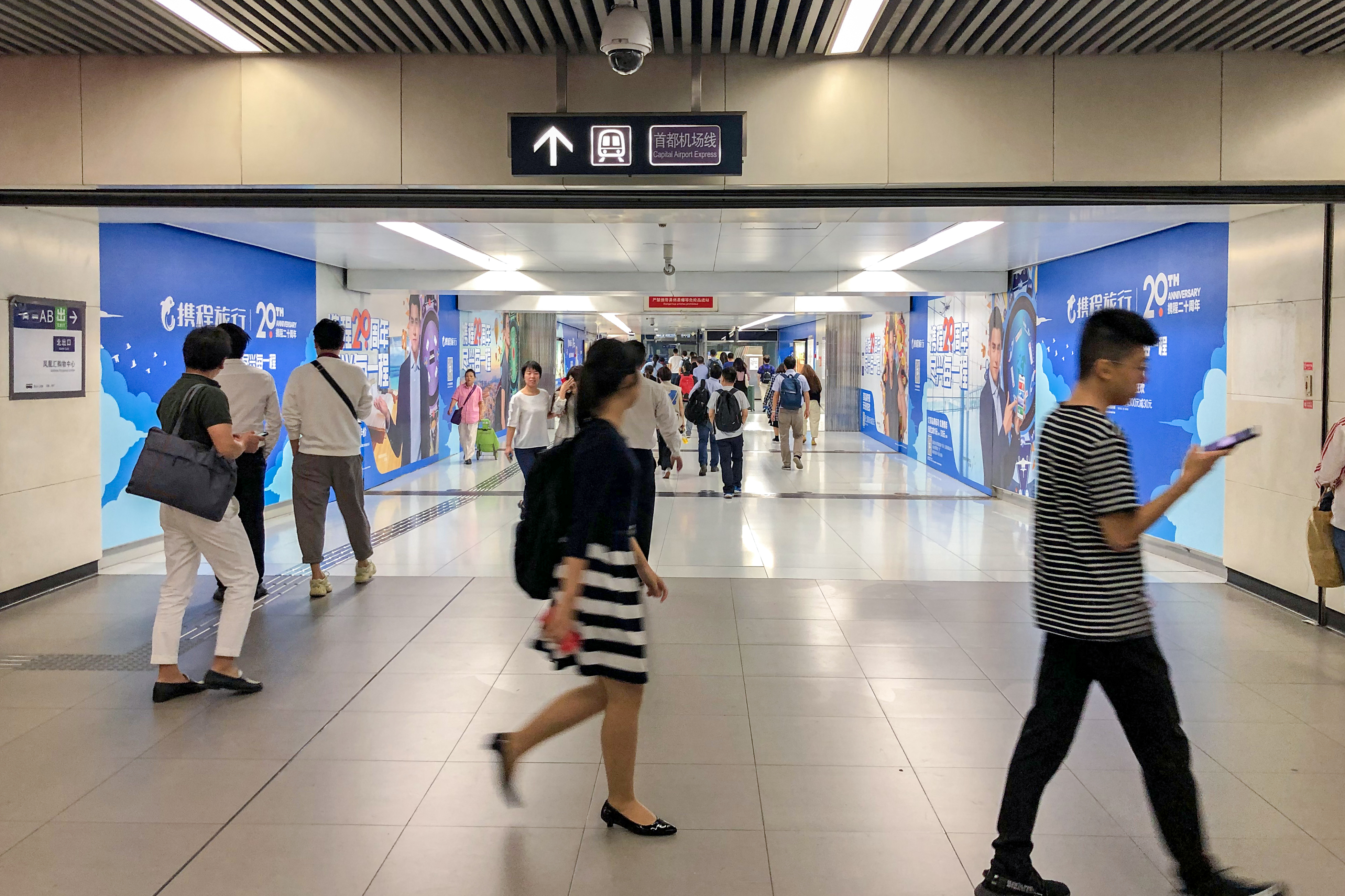 "Capital Airport Express" indeed.